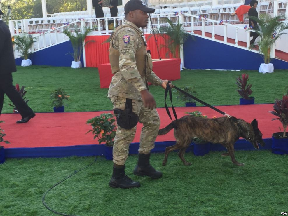 Haitian policeman does a security check of the inaugural grounds ahead of Jovenel Moise's swearing-in ceremony in Port-au-Prince, Haiti. (Photo: VOA Creole Service)